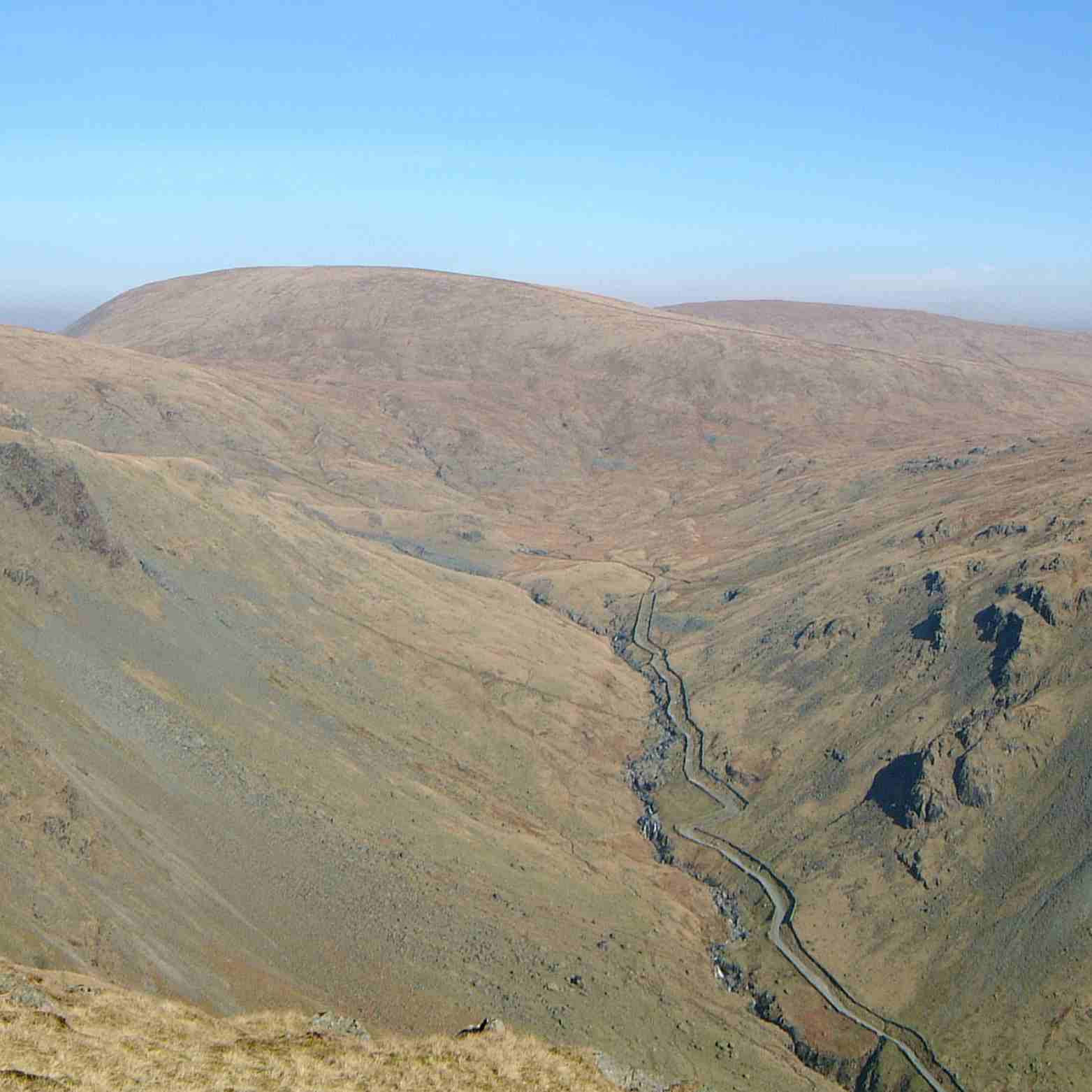 Personal photograph taken by Mick Knapton on 17th March 2003